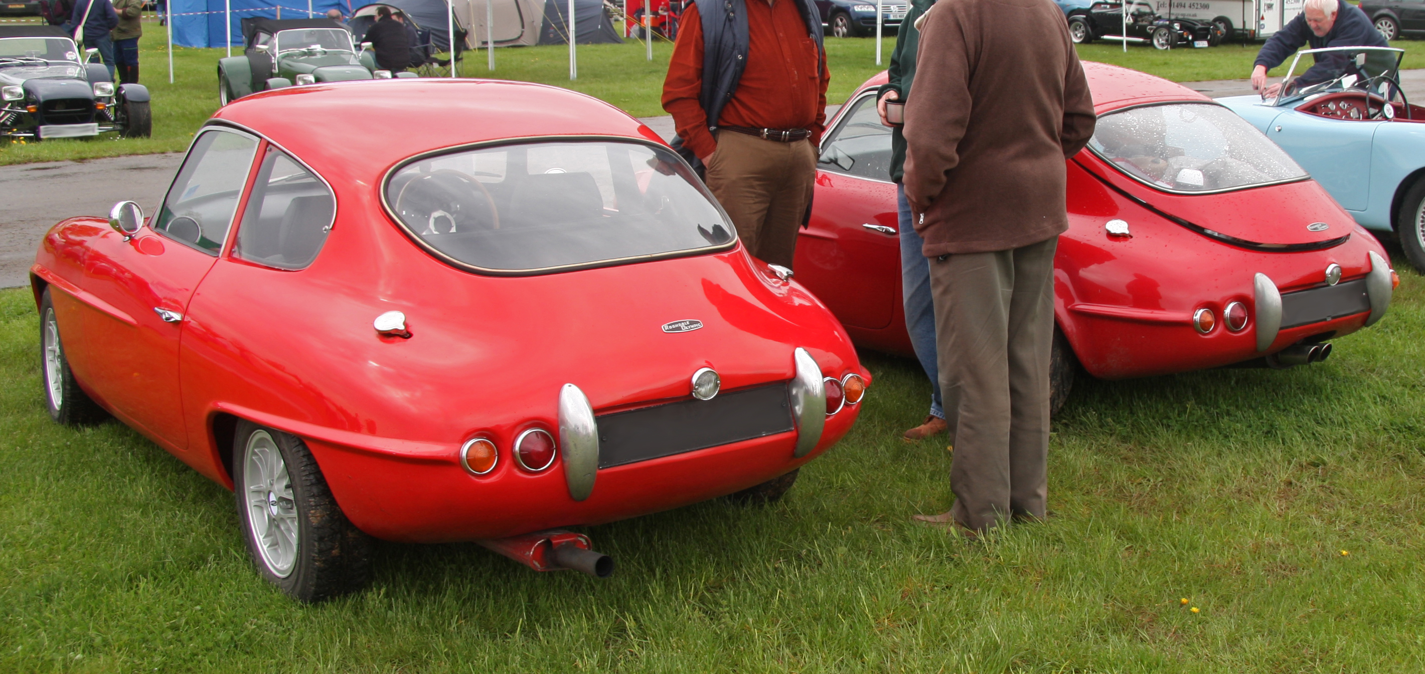 Rear views of Rochdale Olympic Phase I (left) and Phase II (right) - Phase II with useful rear hatch.